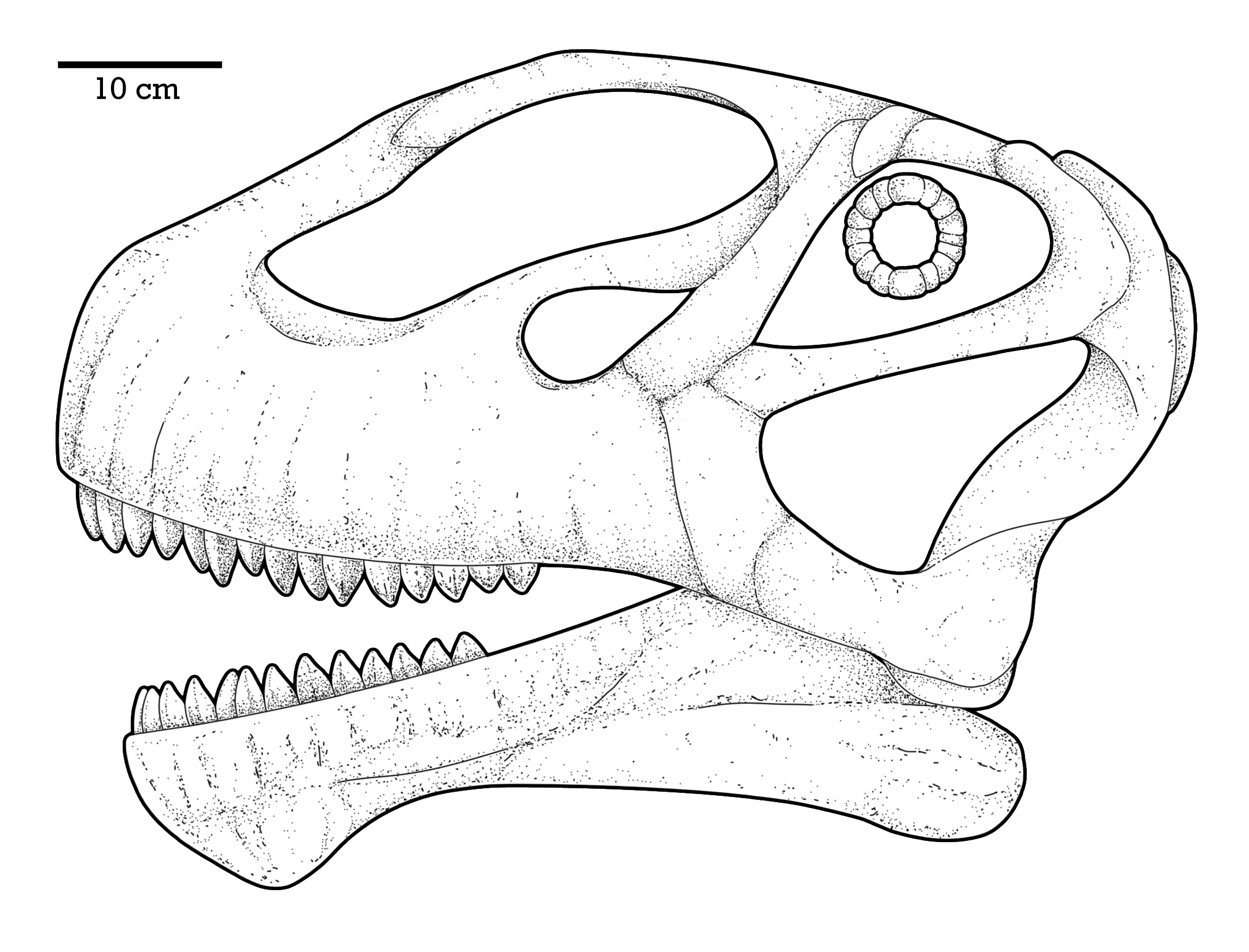 Reconstructed skull of the turiasaurian Mierasaurus, based on the holotype UMNH.VP.26004.